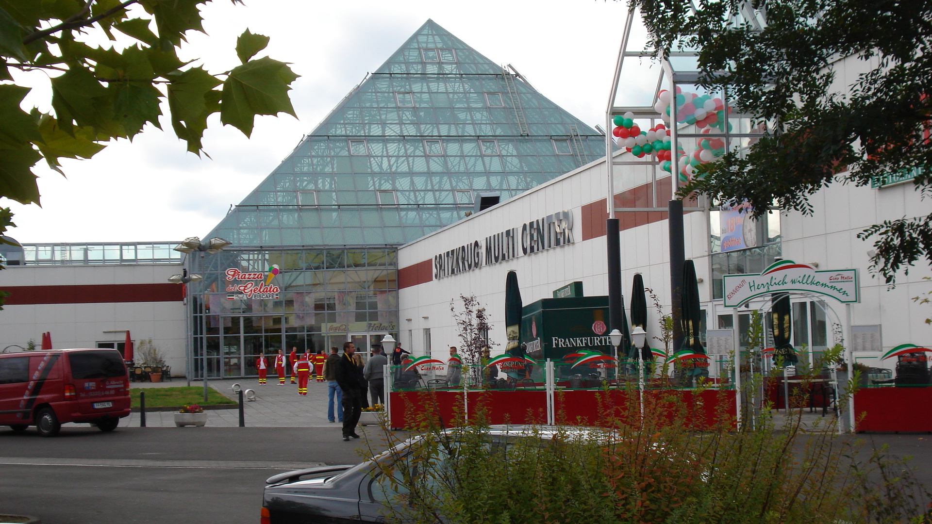 Shopping Centre in Frankfurt (Oder), Brandenburg, Germany